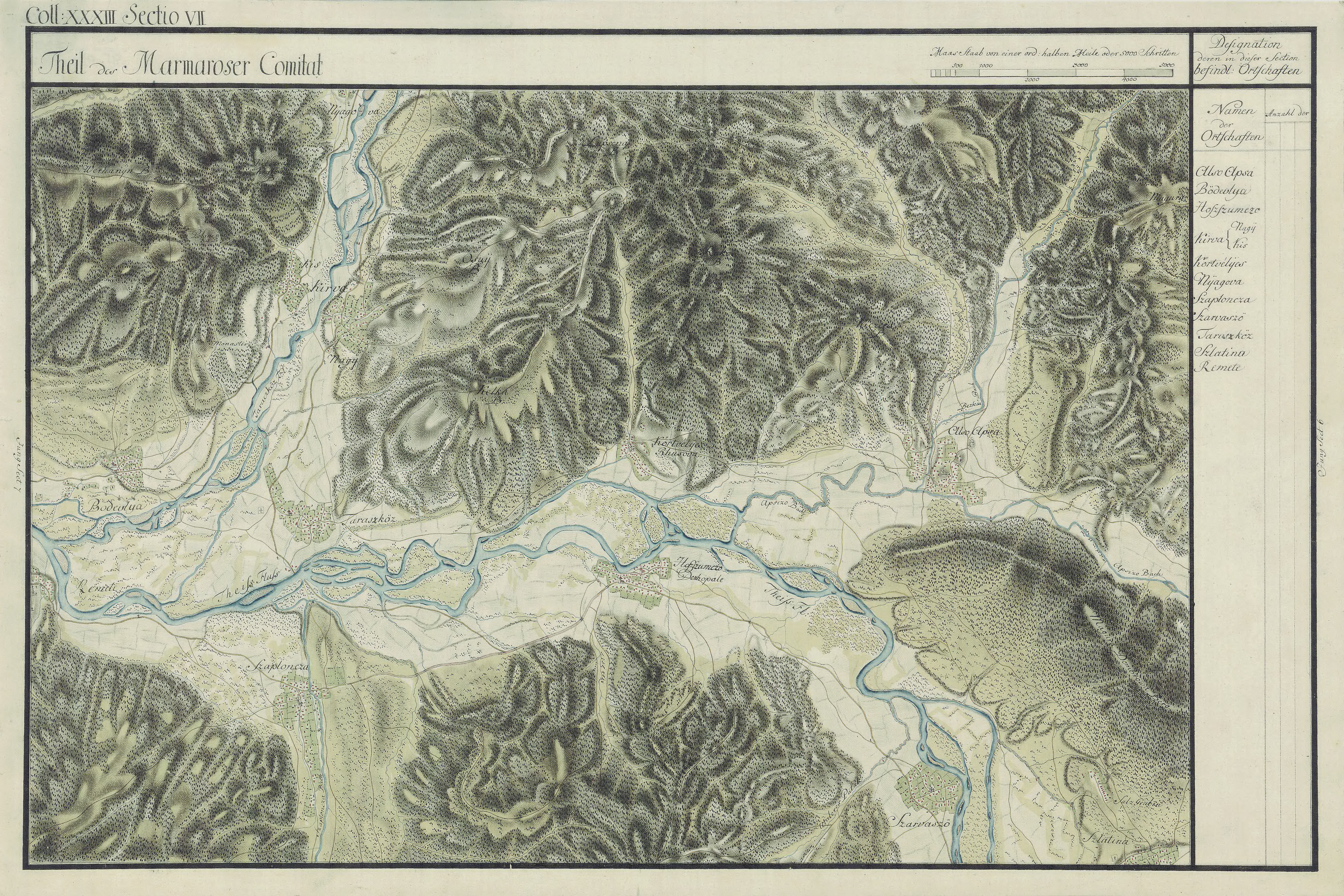 Maramureş County, 1769-1773. Josephinische Landesaufnahme pg.33-07